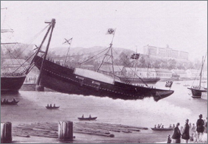 Te Russian frigate Rurik (Рюрик) being launched in Turku, Finland in October 1851